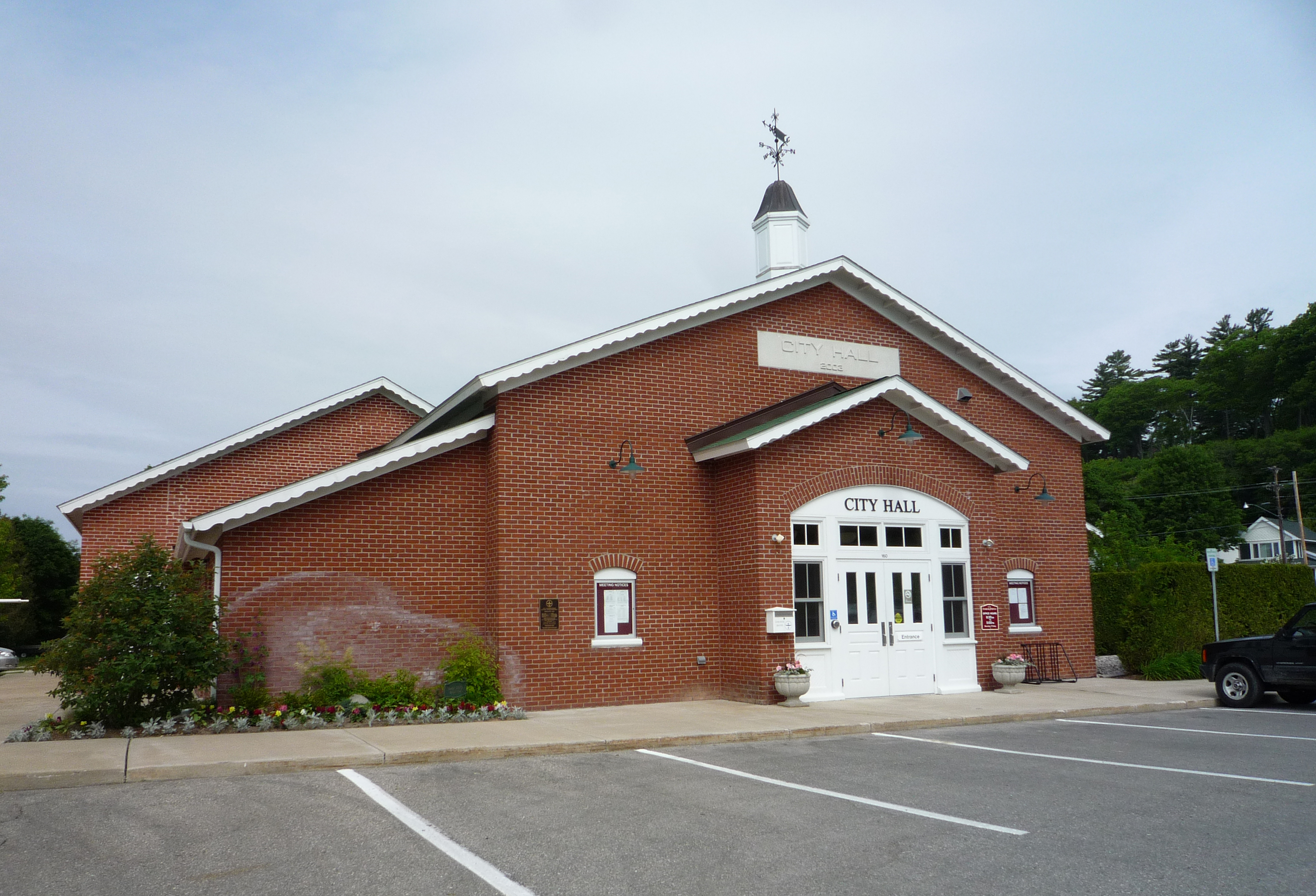 City Hall, Harbor Springs, Michigan, USA.